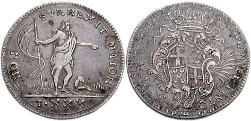 Malta, Knights of Malta. Emmanuel Pinto. 1741-1773. AR 30 Tarì (41mm, 24.21 g, 6h). Dated 1757. NON SVRREXIT MAIOR; saint John the Baptist standing facing, holding banner in right hand and pointing to lamb at feet with left. F EMMANVEL PINTO M M H S S; crowned coats-of-arms; all within spray; pellet above, Maltese cross beneath Restelli 66; Davenport 1600. Near VF, toned.